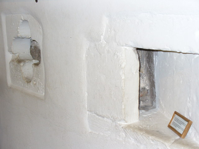 St James' parish church, Shere, Surrey: quatrefoil and hagioscope or squint. These two openings in the north wall were cut so that the anchoress, Christine Carpenter, could see services from her walled cell built on the outside wall.